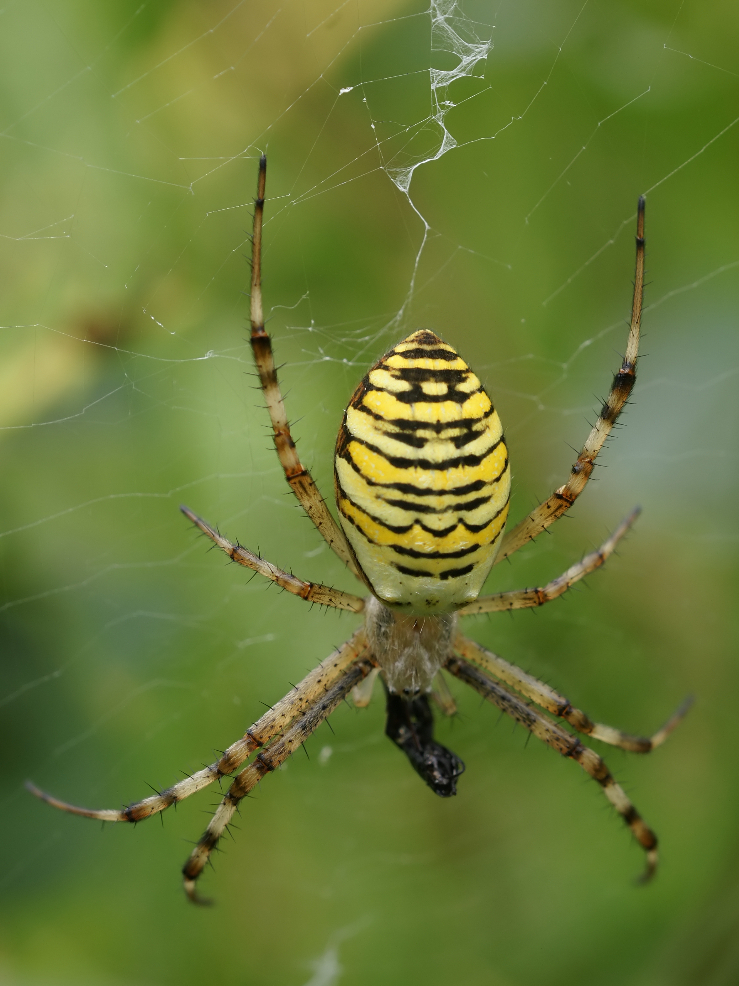 Wasp spider close to Brigueuil, Charente, France